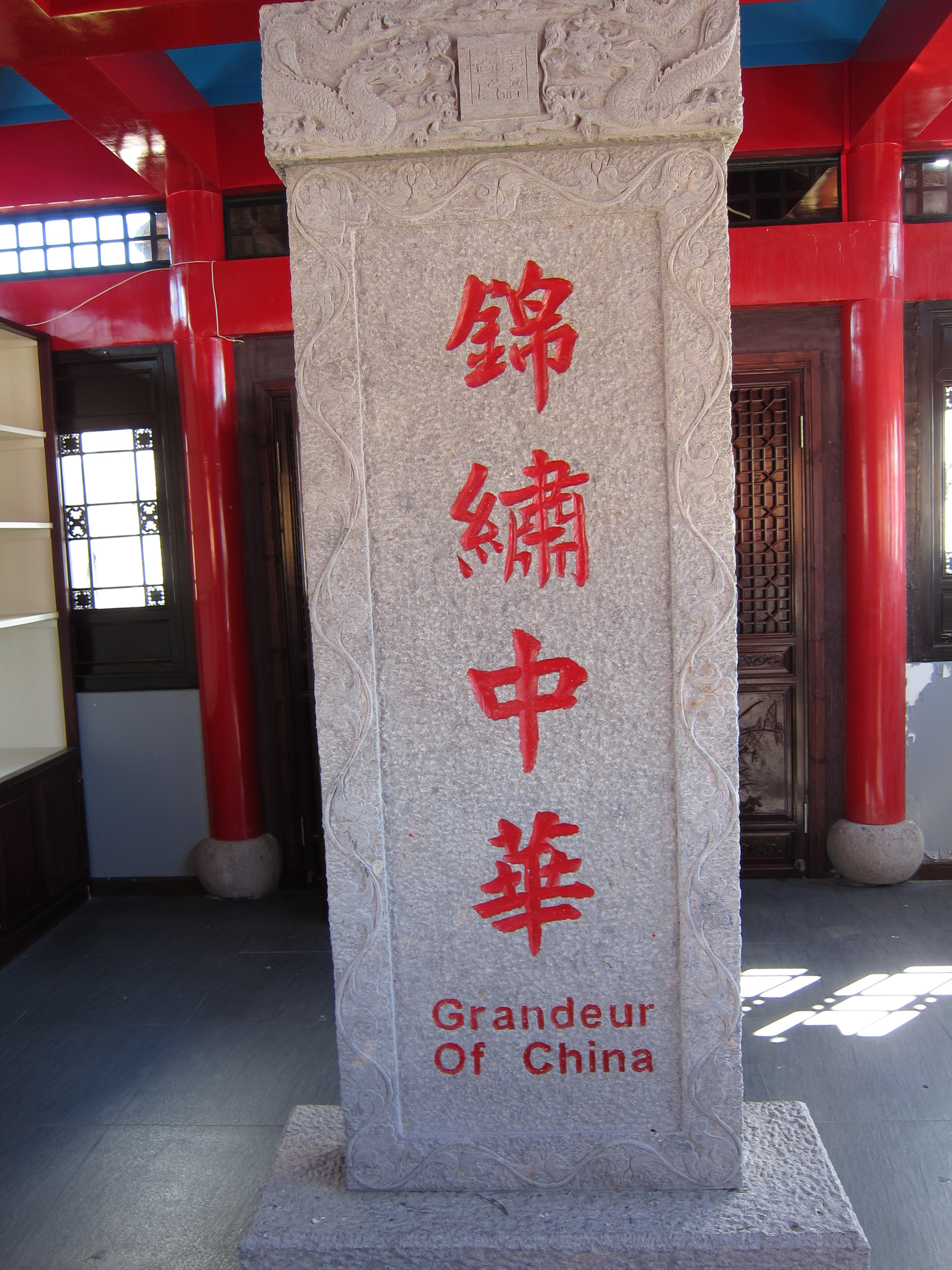 Entrance post of the Dragon Gate Museum in Älvkarleby, Sweden.